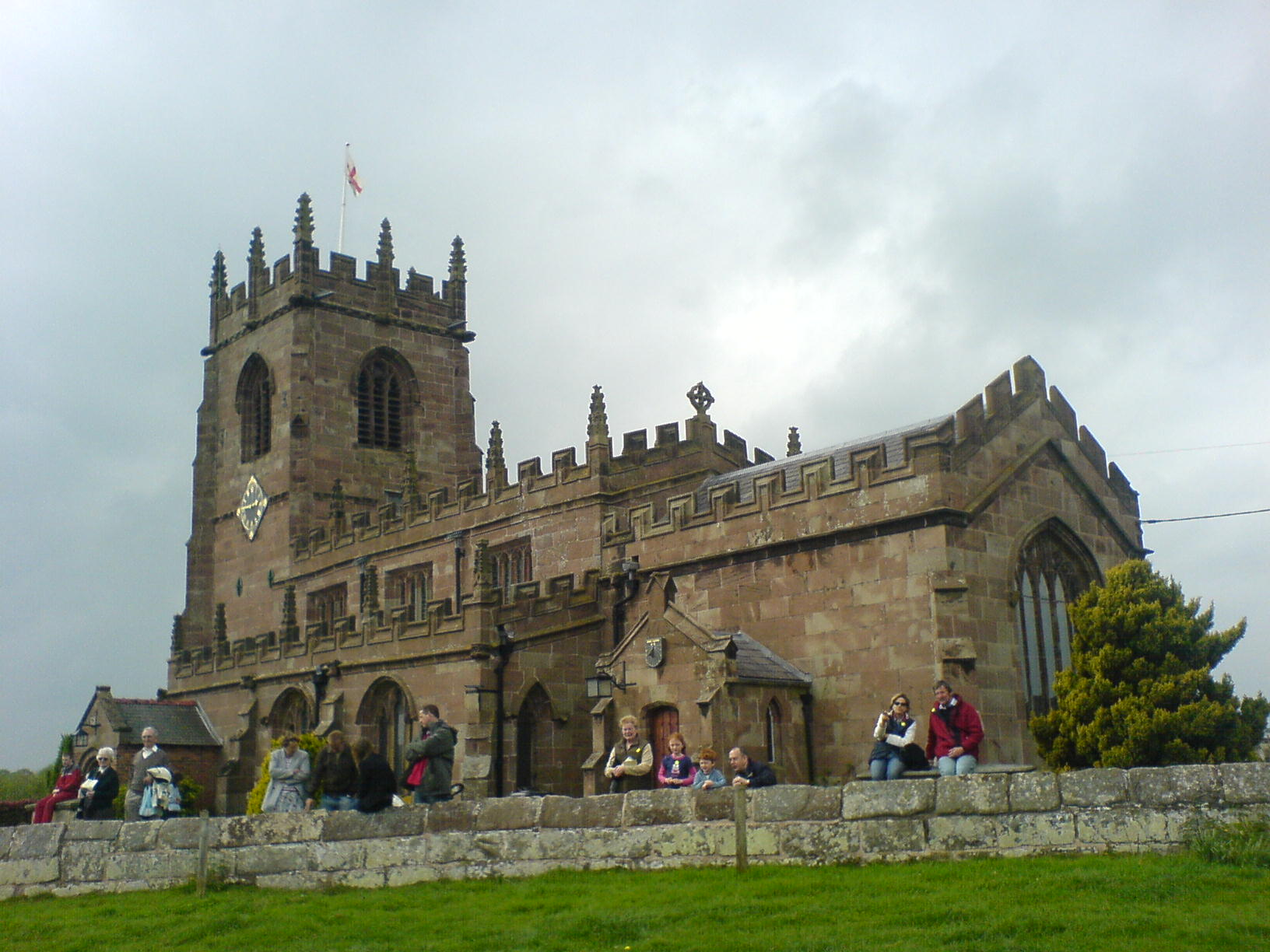 thumb|St Michael’s & All Angels Church (front view)